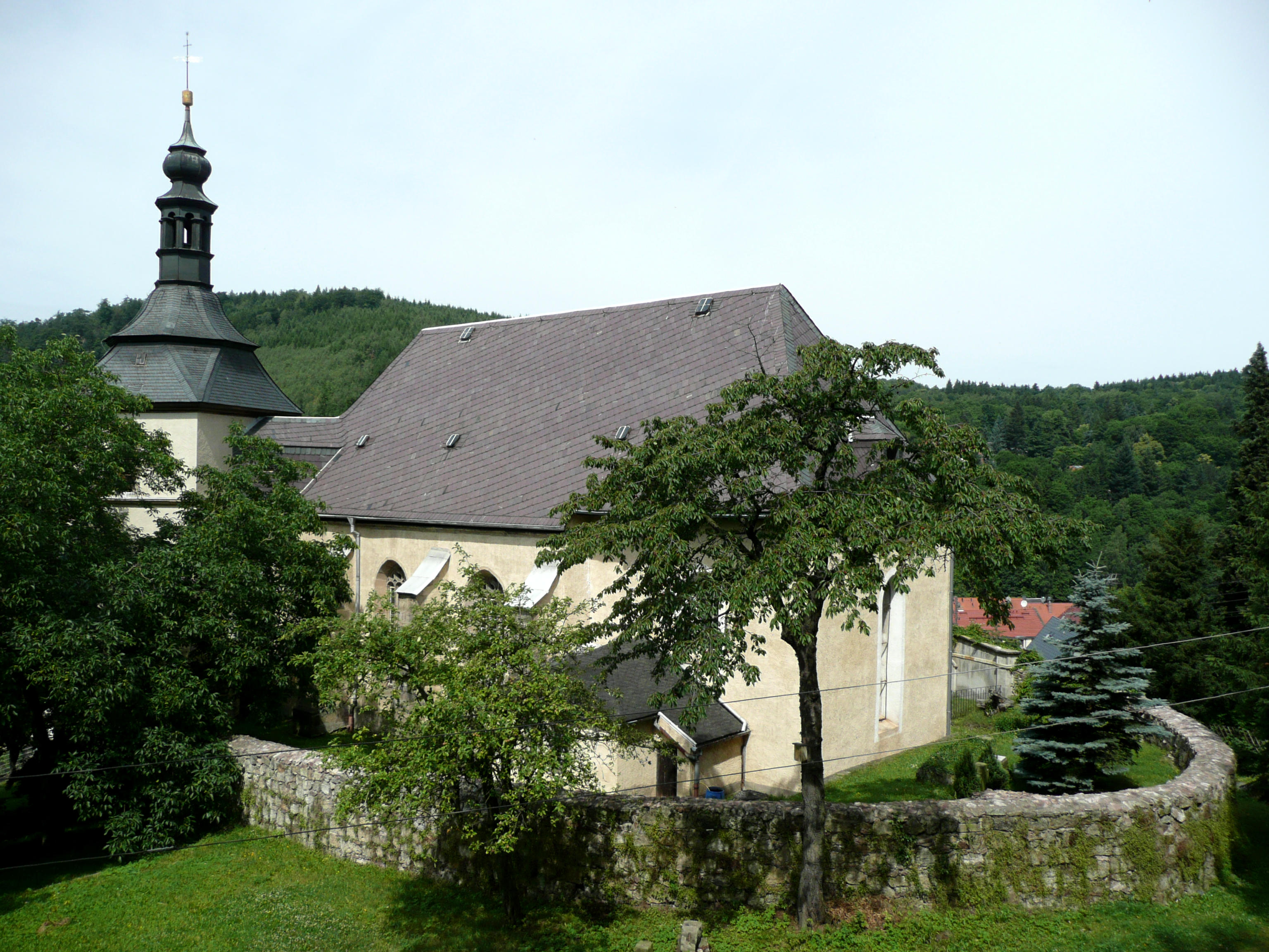 This image shows the evangelic church in Bad Gottleuba in Saxony.